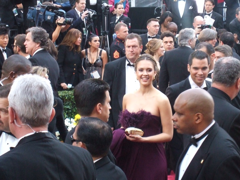 Jessica Alba at the 80th Academy Awards.